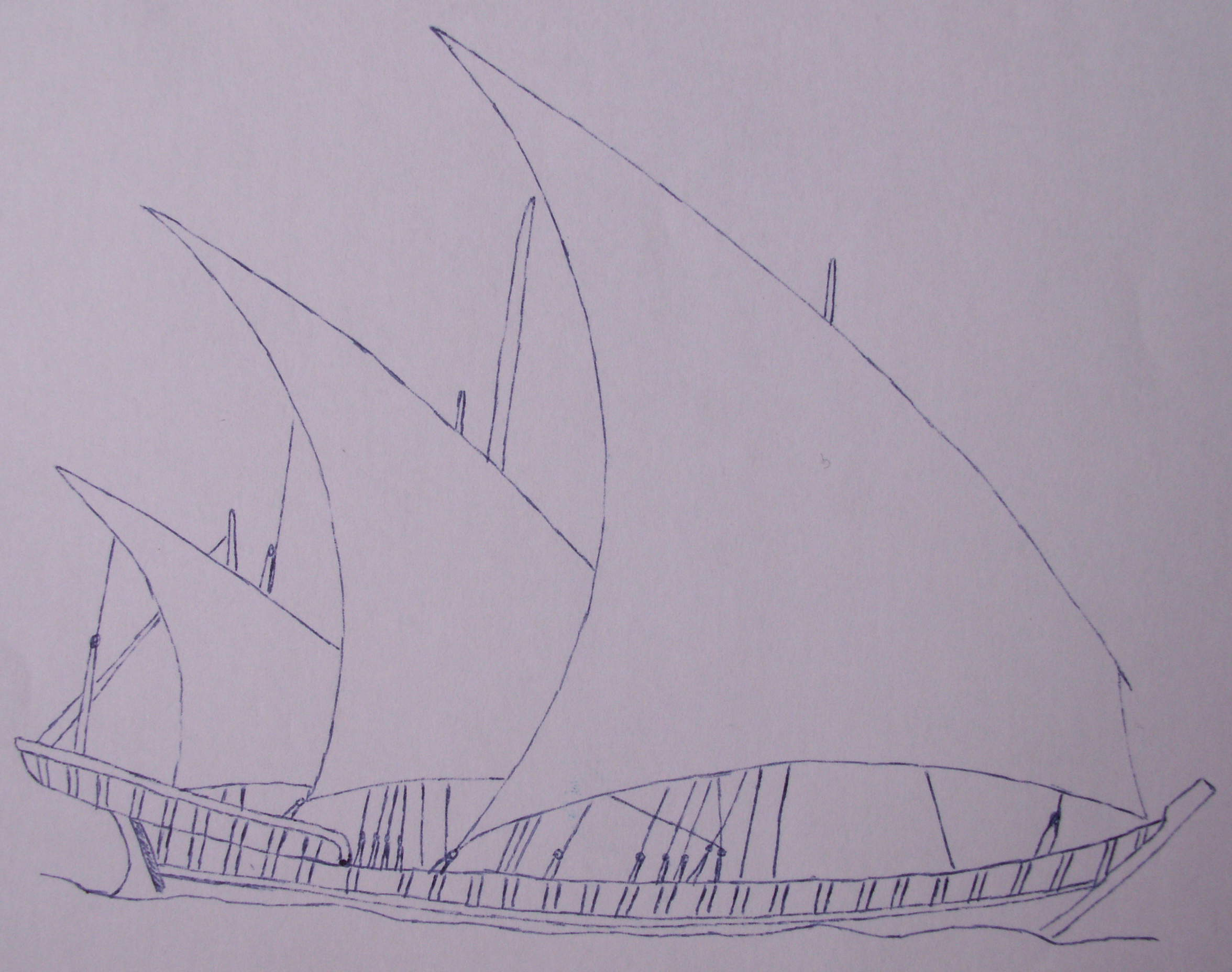 A schematic of a dhow with 3 masts. Probably a baghlah.